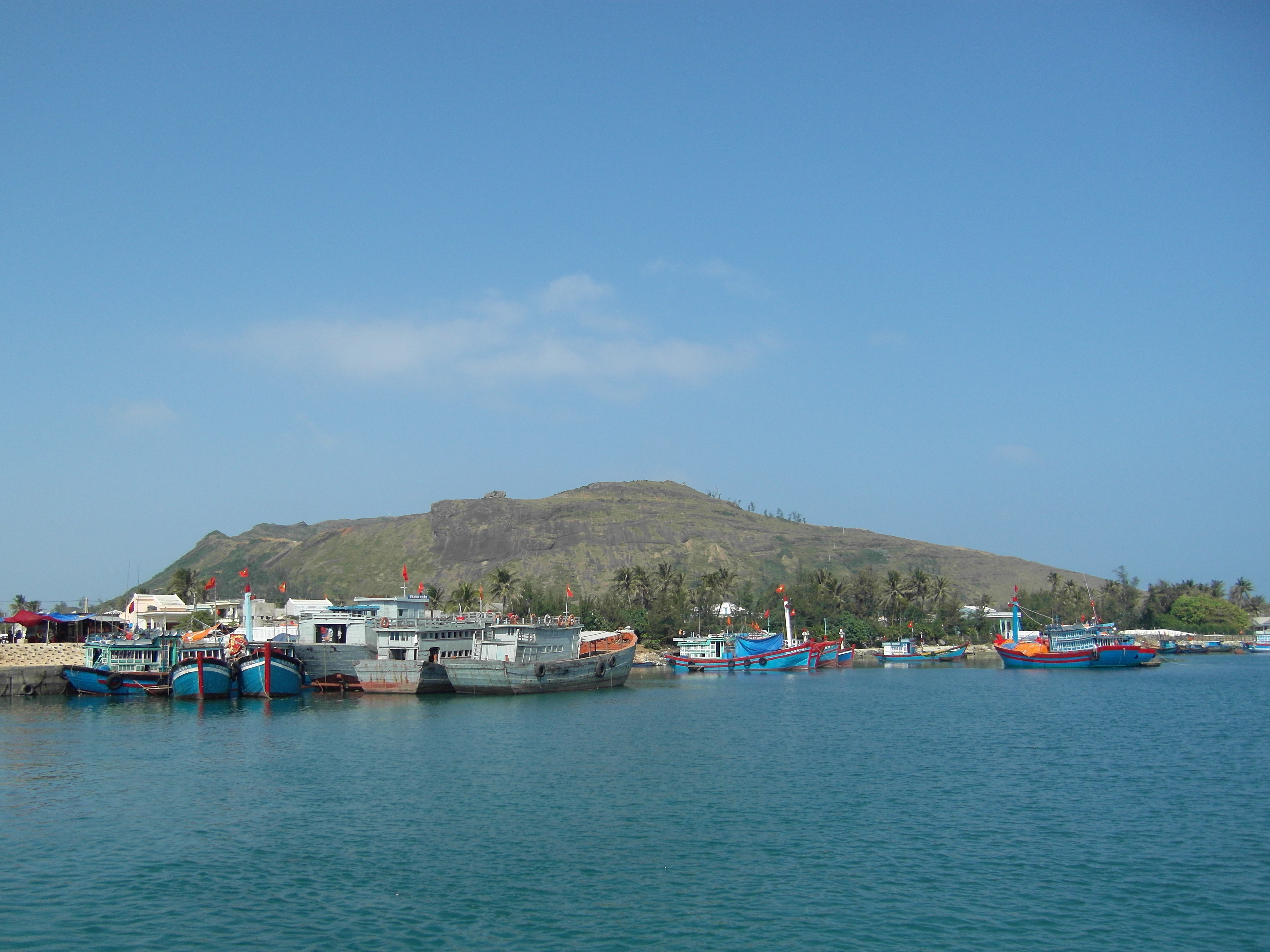 Ly Son Island_01